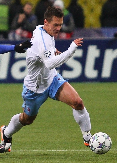 Marek Čech Defender of Trabzonspor